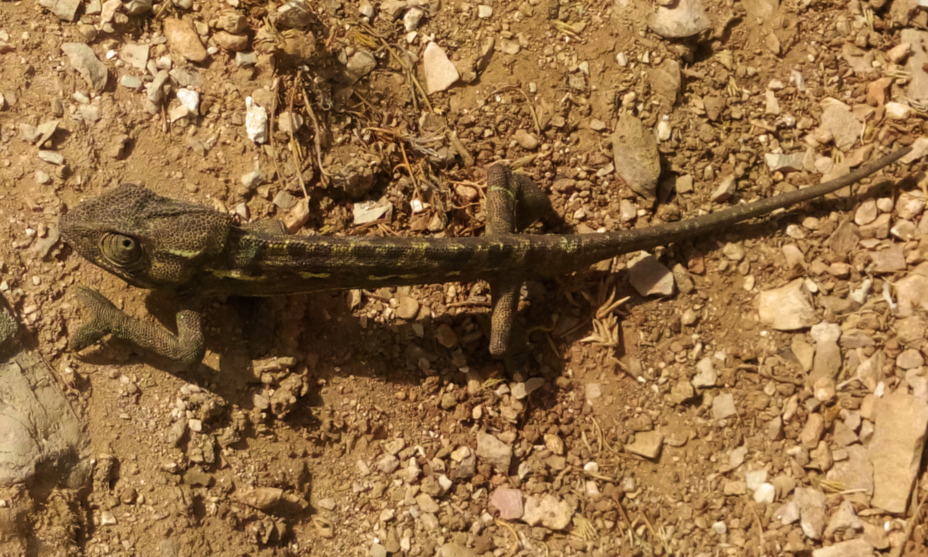 Chamaeleo chamaeleon found in Hebron, Palestine